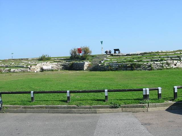 The site of Sandown Castle It was built in 1537 - 1540 to a very similar design to that of Walmer Castle but almost nothing now remains. The sea started to breach the defences in 1785 but it was still used for another 50 years before being totally abandoned. Some of the stone was removed for use in the town, but the castle was then left to the sea. It has now been covered in concrete to form part of the sea defences.